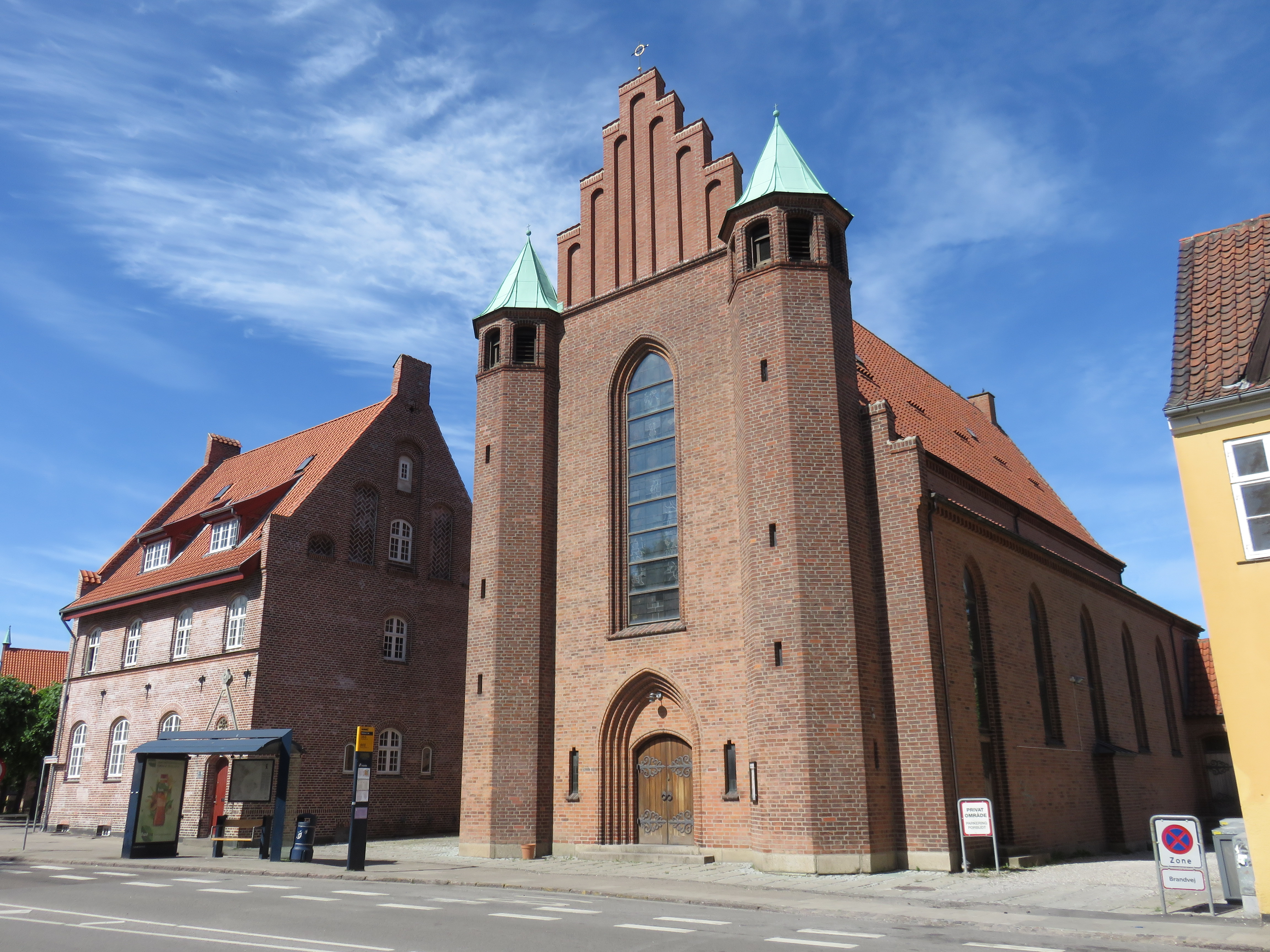 St. Vincent's Church in Helsingør, Denmark in 2018